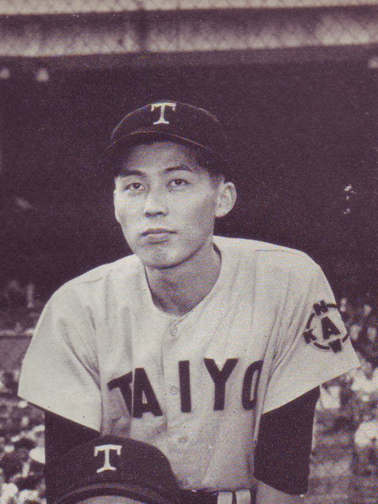 Noboru Akiyama (taken in 1956).